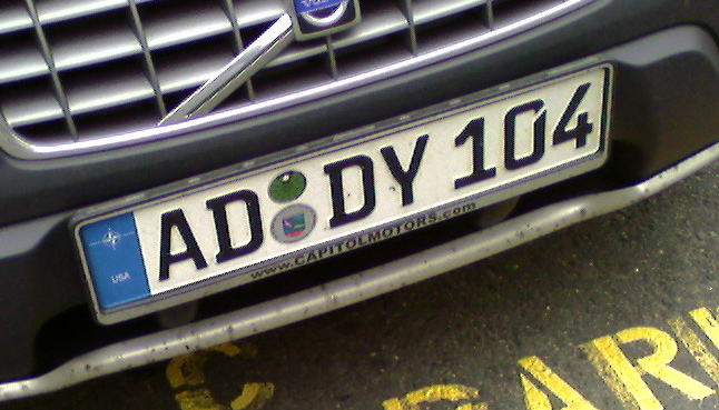 European-dimension license plate issued by the US Army in Europe (Germany) Registry of Motor Vehicles.